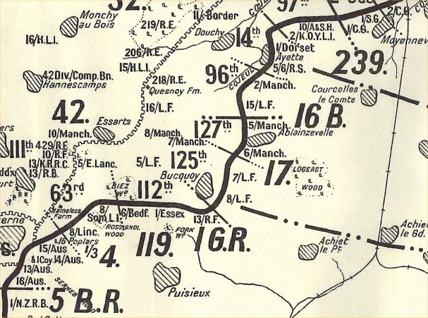 Map showing British and German units around Bucquoy, France during the final day of the German offensive in the area, 5 April 1918.